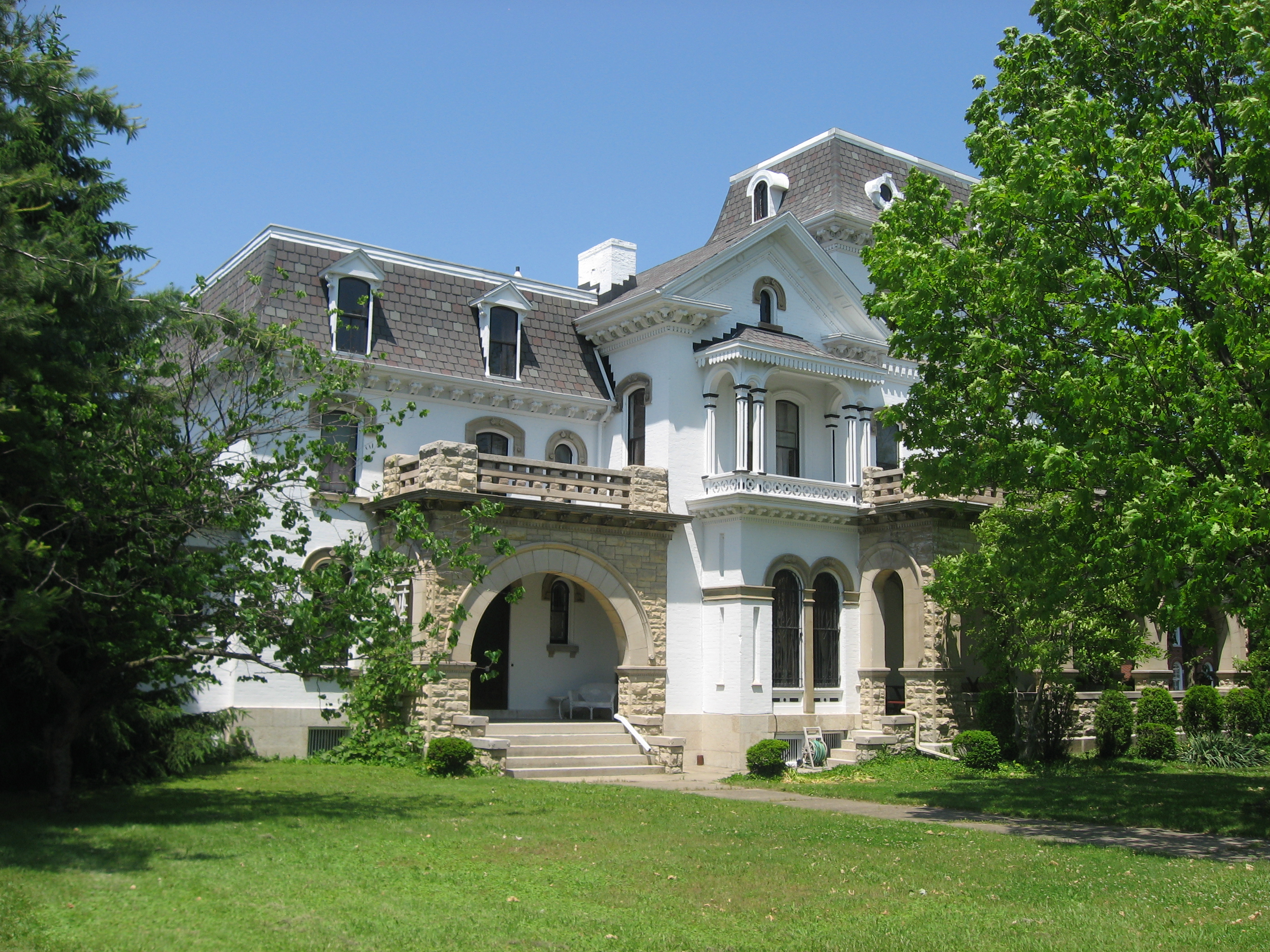 Southern side of the Millen-Schmidt House, located at 184 N. King Street in Xenia, Ohio, United States. Built in 1871, it is listed on the National Register of Historic Places.